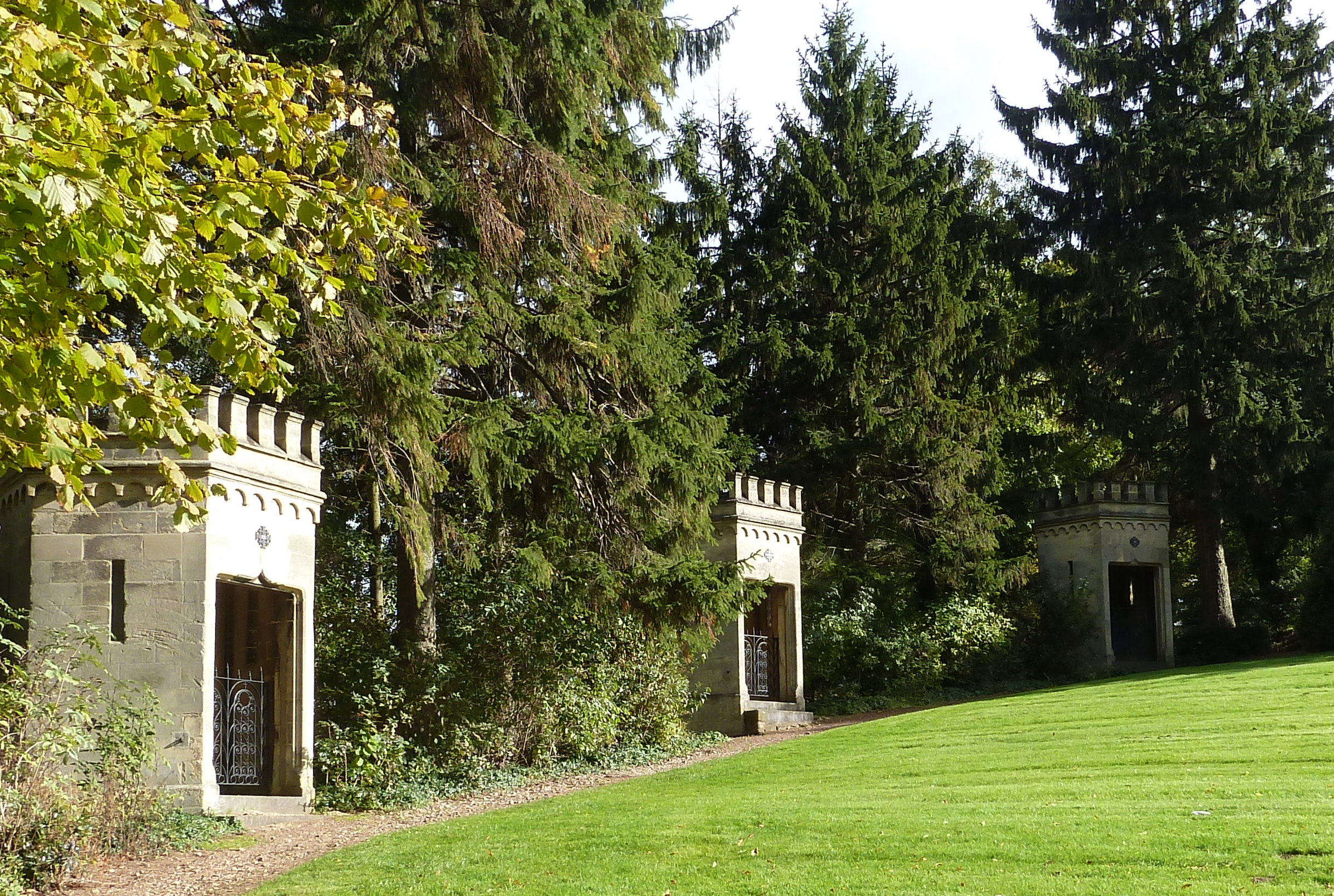 Kruiswegstaties, Cadier en Keer, Limburg, the Netherlands